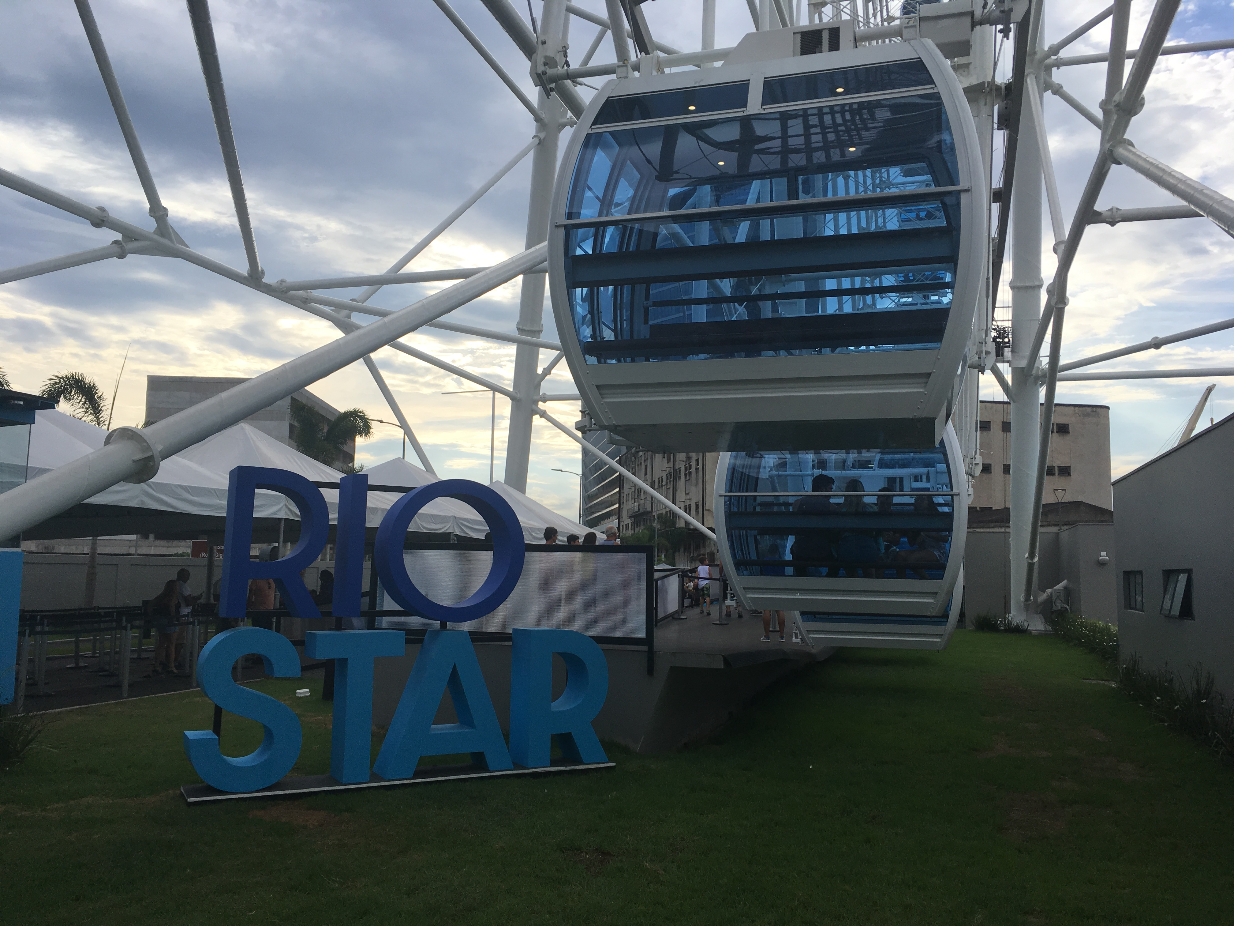 The ferris wheel Rio Star.